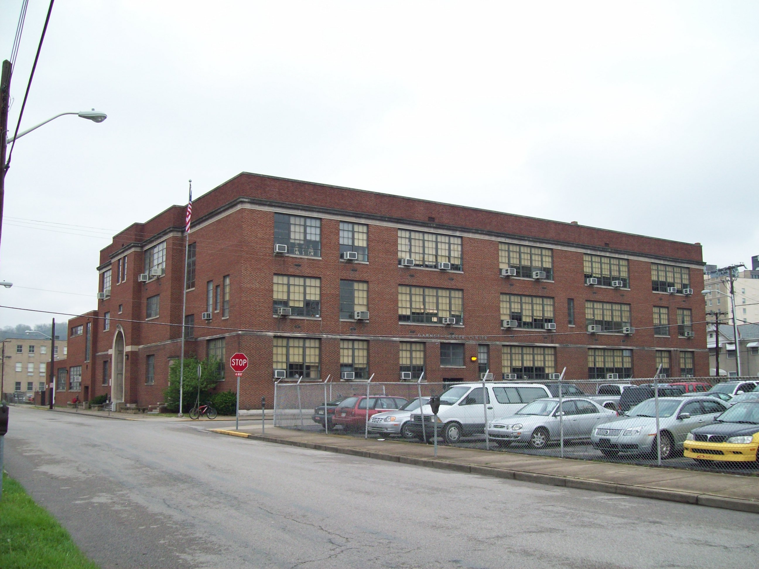 Garnet High School, Charleston, West Virginia.